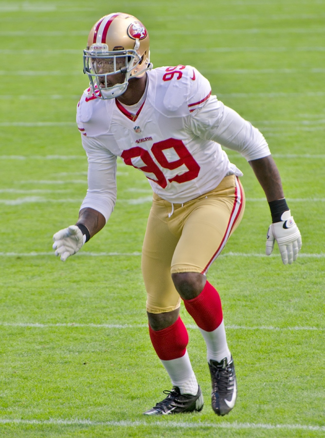 San Francisco 49ers vs. Green Bay Packers at Lambeau Field on September 9, 2012. Photo by Mike Morbeck.